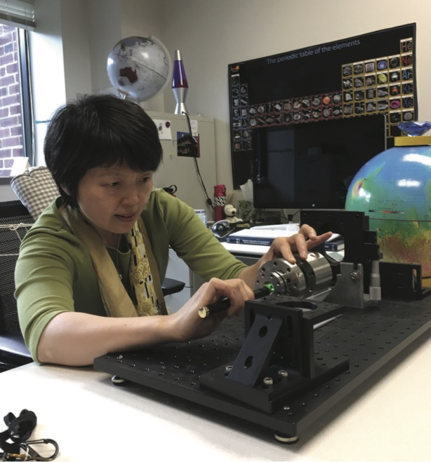 Diamond anvil cells are used to investigate the physics and chemistry of materials under deep Earth conditions.